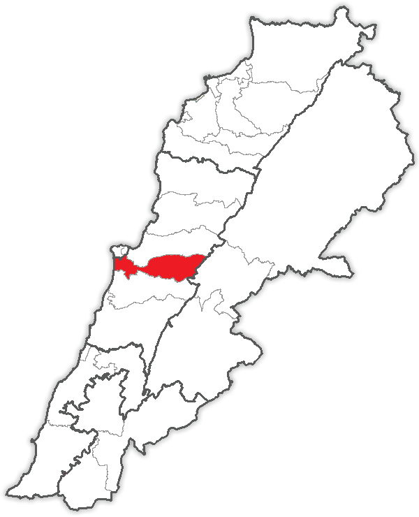 electoral district (2017 Election Law)